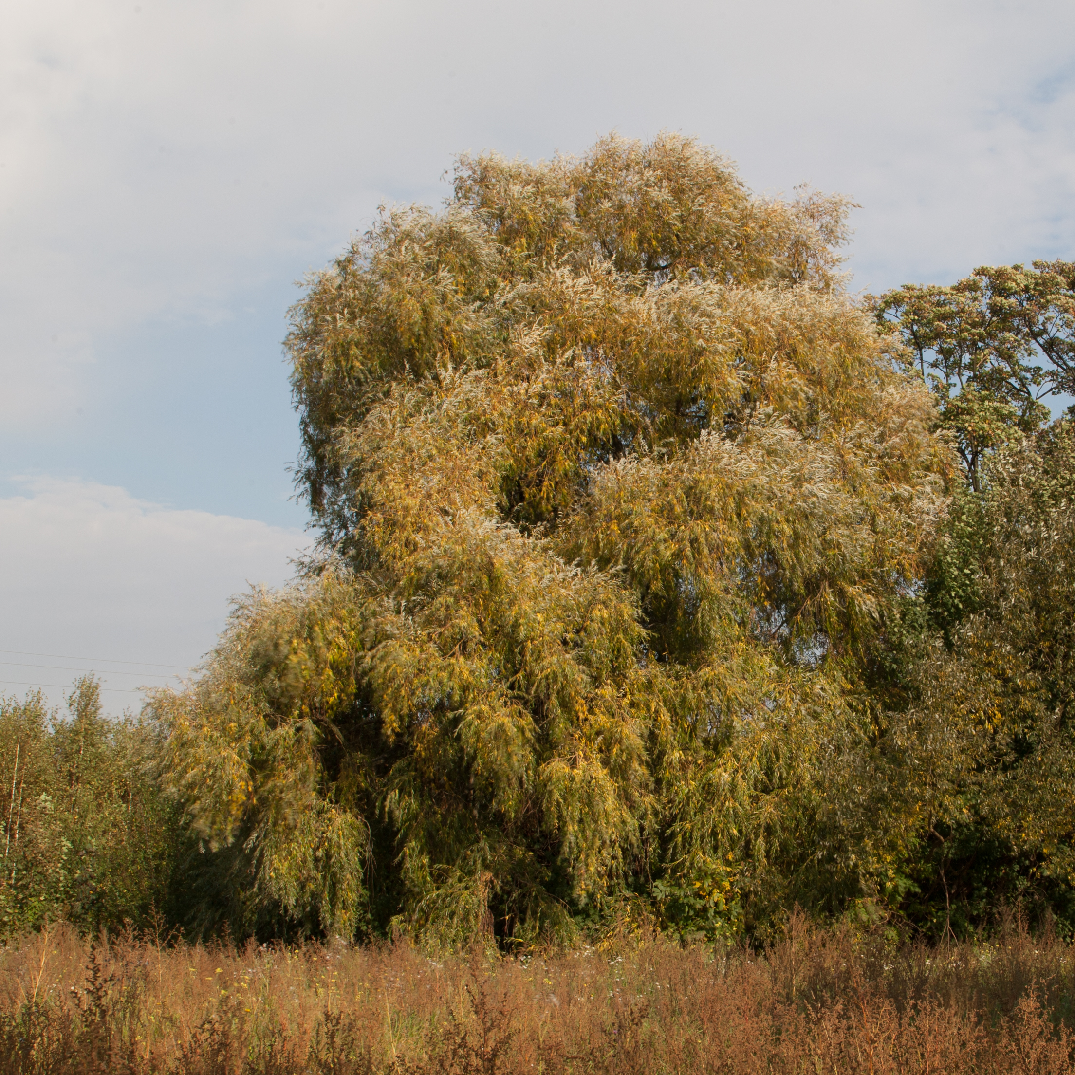 The crack willow, Lodz(Poland)